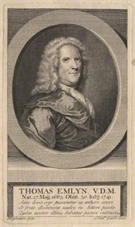 Thomas Emlyn (1663–1741) was an English nonconformist divine.